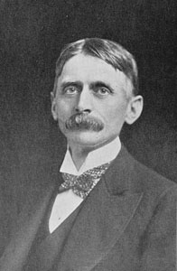 Photo of Edward Manning Bigelow, the director of the Department of Public Works in Pittsburgh in late 19th / early 20th centuries